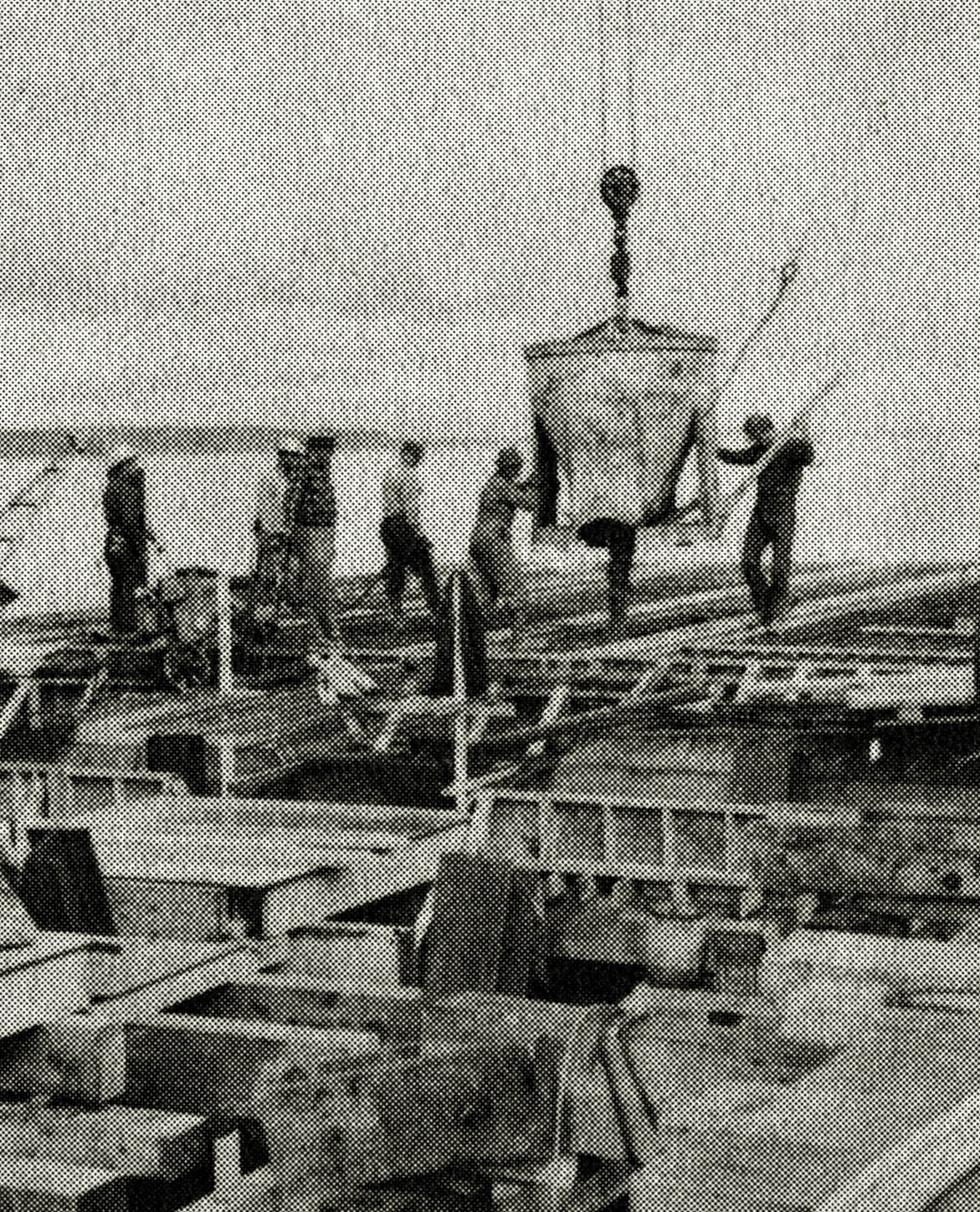 The original construction of the Port of Anchorage was signficantly delayed by two events: first, the ship carrying the steel pilings for the wharf deck encountered rough seas and approximately two-thirds of the pilings were lost overboard; then, the carpenters' union went on strike, which also affected the construction of multiple high-rises (mostly hotels) planned at that time. In this photo, they are pouring the first concrete for the wharf deck, following initial construction with what resources were available at that moment.